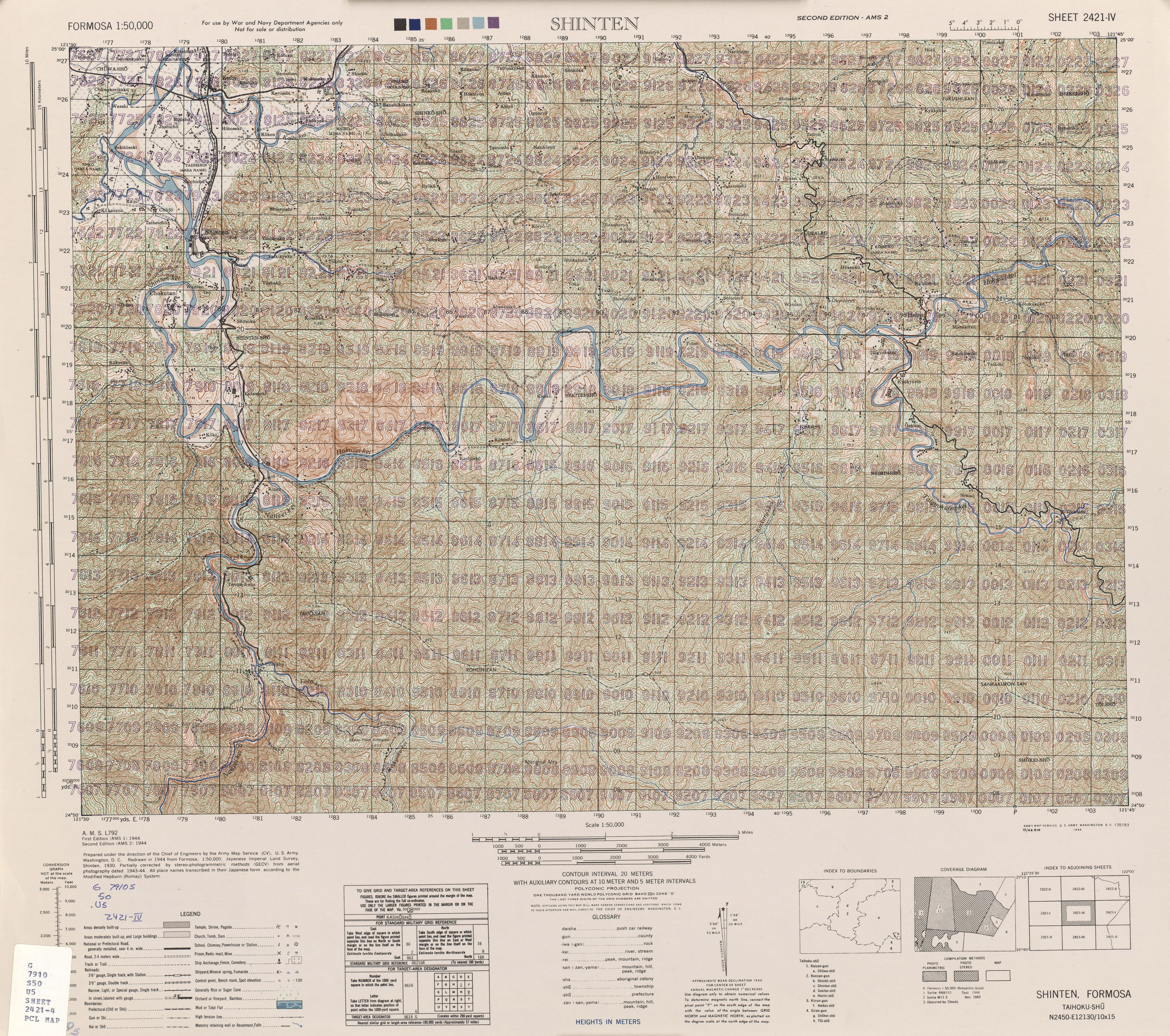 Map from Formosa (Taiwan) 1:50,000 AMS Series L792